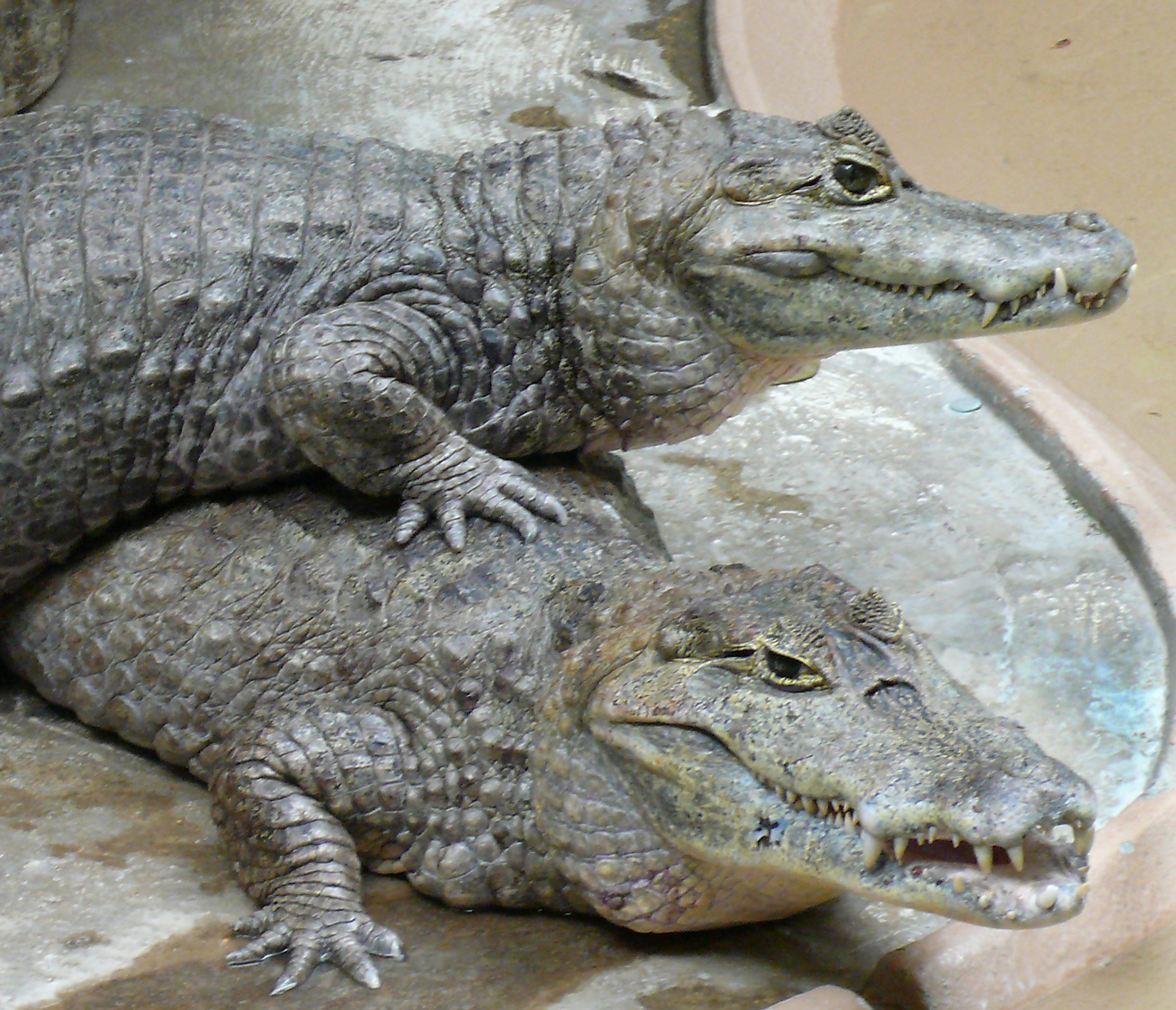 Spectacled Caiman (Caiman crocodilus)